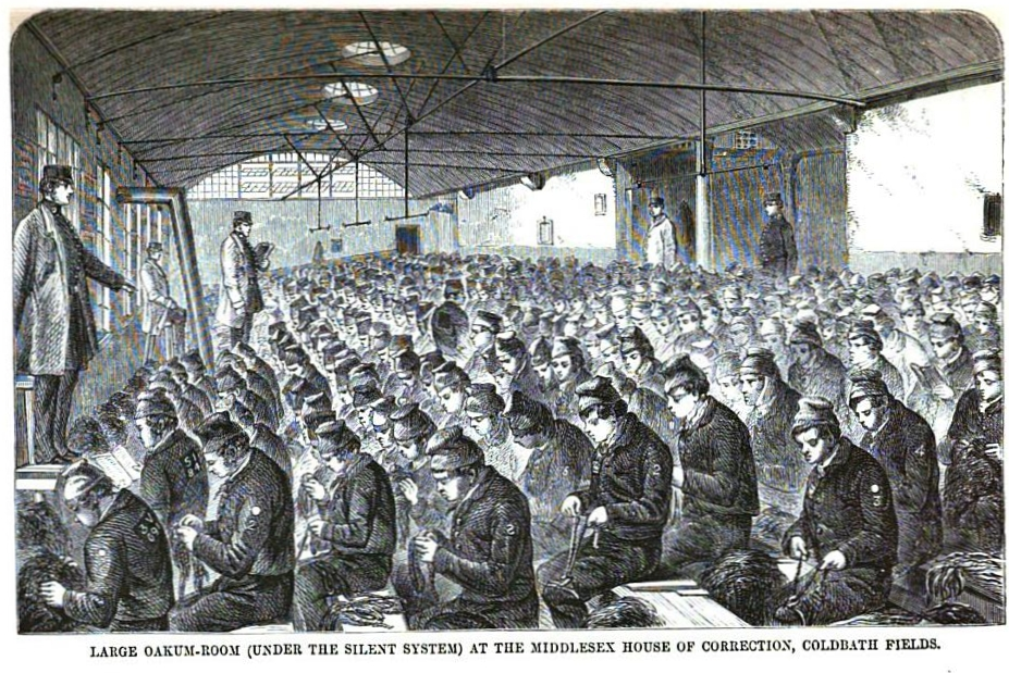 "Large Oakum-Room (Under The Silent System) At The Middlesex House Of Correction, Coldbath Fields" on p301 of The criminal prisons of London, and scenes of prison life (1864) by Henry Mayhew (d. 1887) & John Binny. Prisoners were required to pick apart old ropes to make oakum, which was used to seal ships and piping. Typically they might have to do 2 pounds a day, although that might be increased to 6 pounds if sentenced to hard labour.